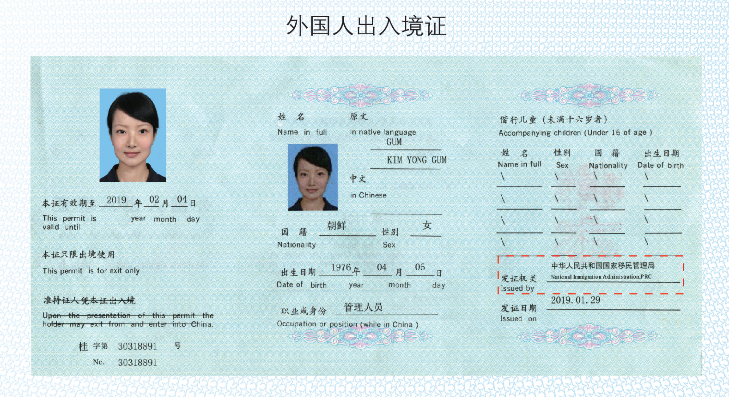 People's Republic of China Alien's Exit-Entry Permit